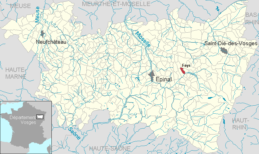 Fays in the department of Vosges, Lorraine, France